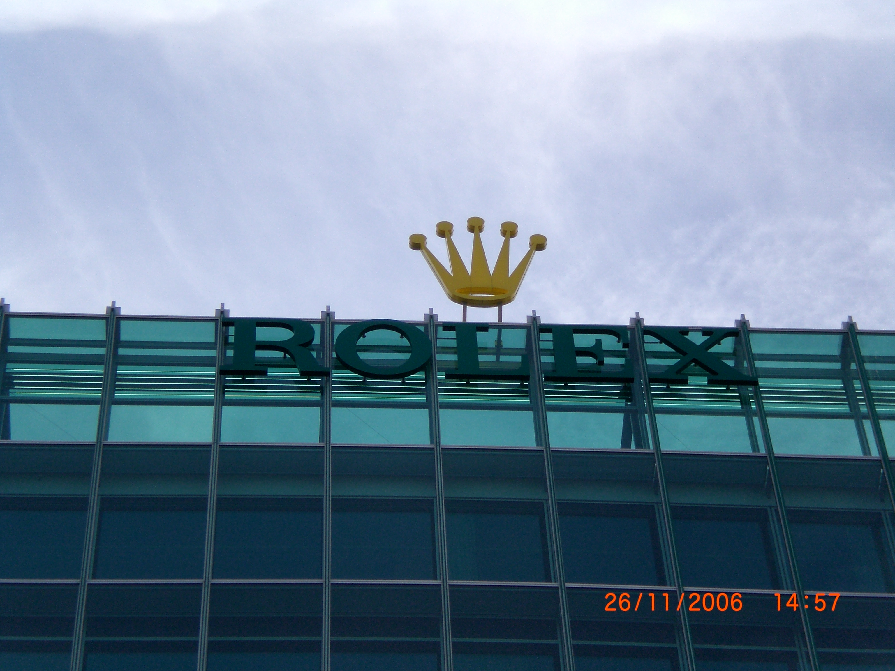 Rolex HQ building in Geneva, Switzerland